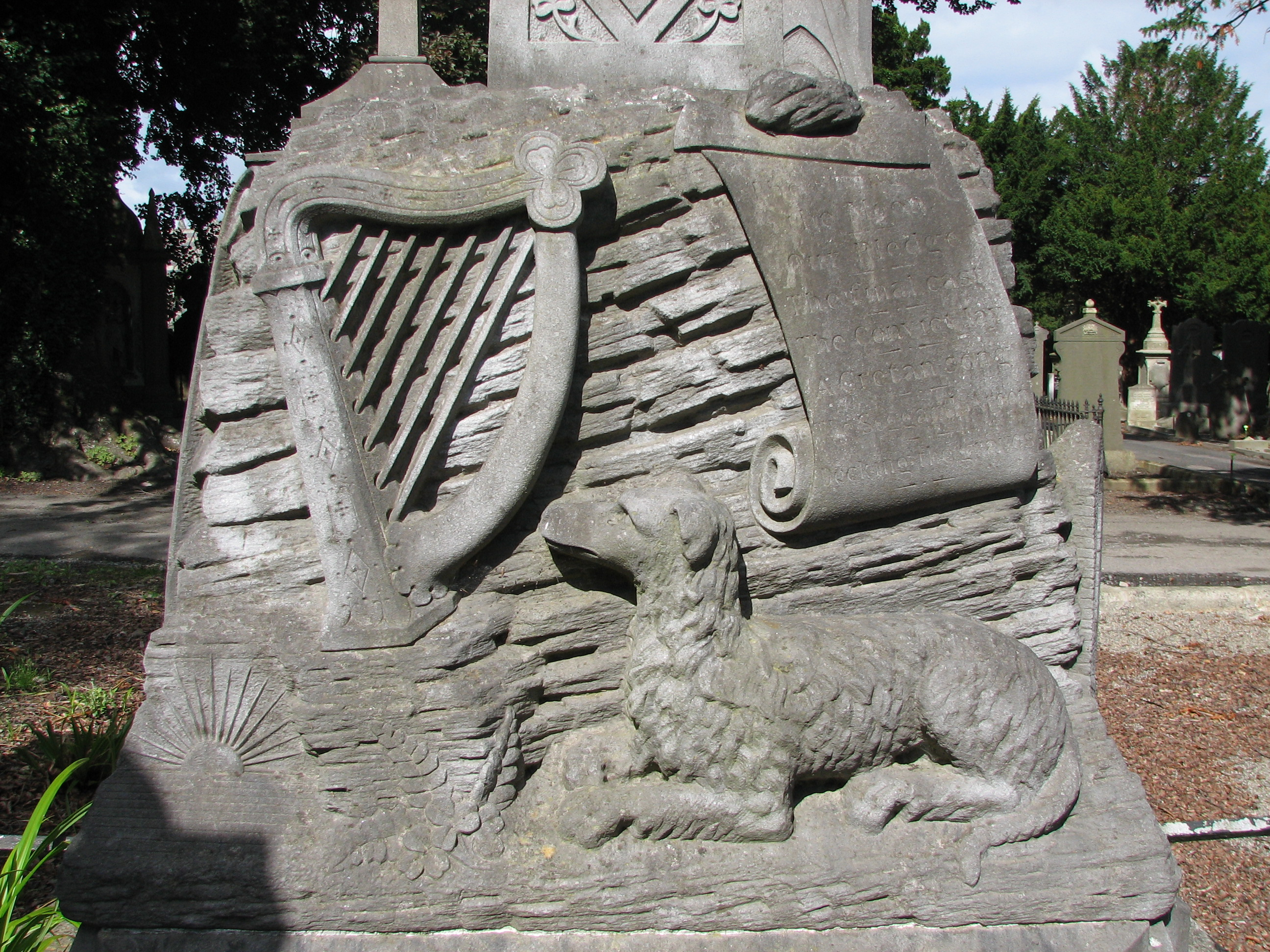 John Keegan 'Leo' Casey (1846 – March 17, 1870), known as the Poet of the Fenians, was an Irish poet, orator, novelist and Republican who was famous as the writer of the song The Rising of the Moon and as one of the central figures in the Fenian Rising of 1867. He was imprisoned by the English and died on St. Patrick's Day in 1870.